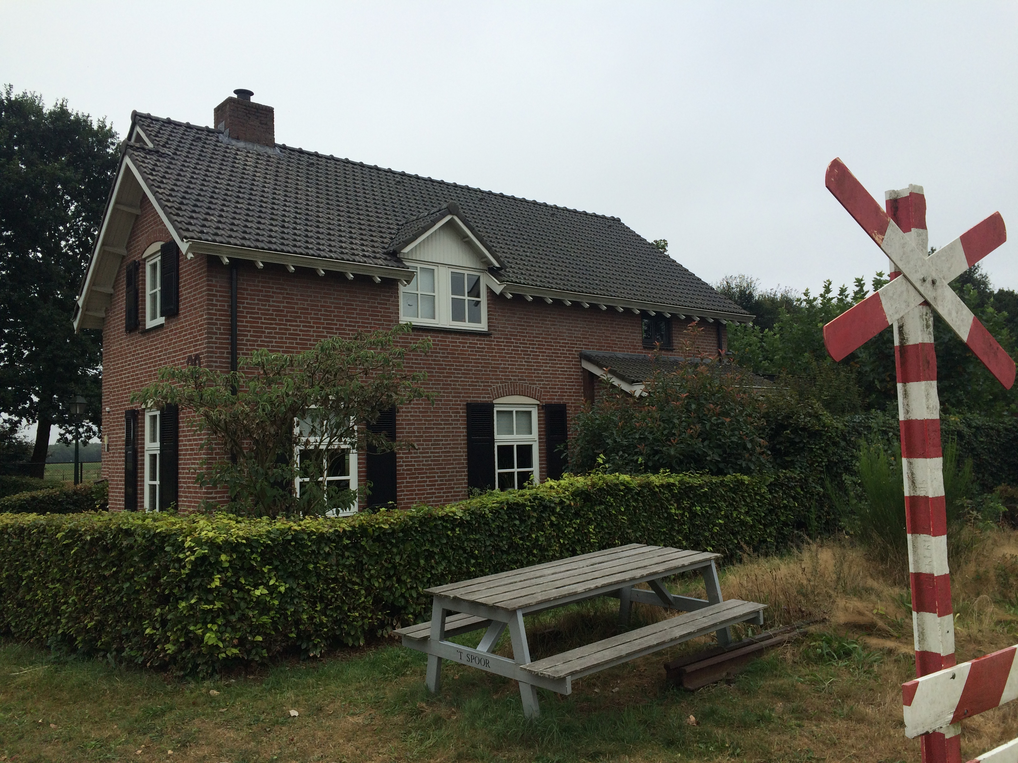 Building of former railway stopplace Zeeland